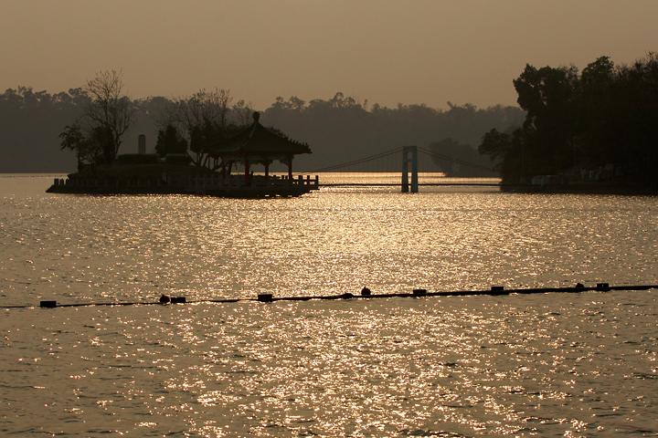 Toapi Lake